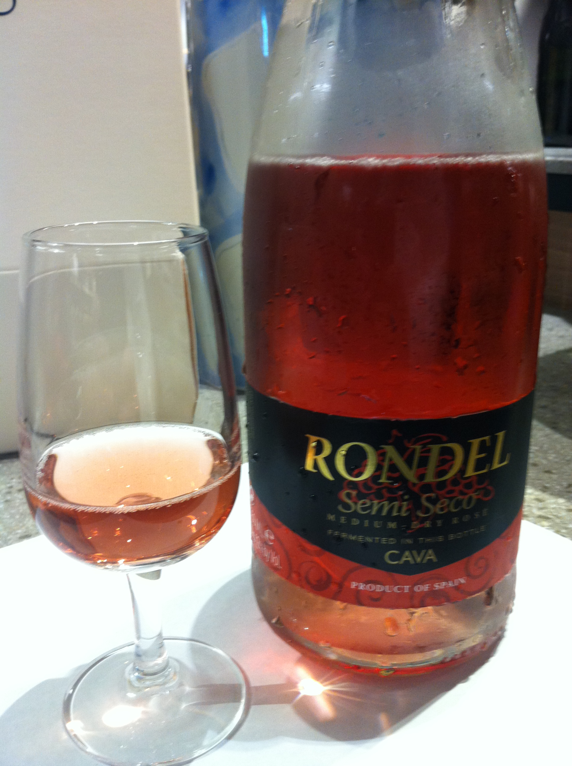 Spanish sparkling rose wine made in the semi-Seco style